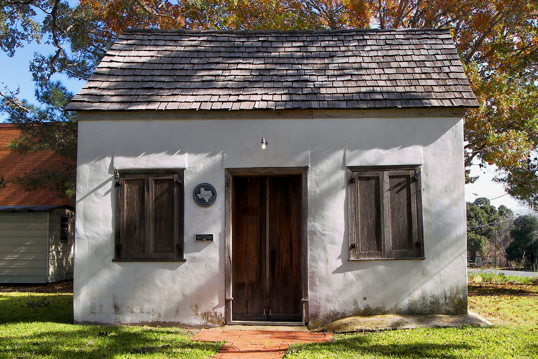 Los Nogales located in Seguin, Texas, United States. The structure was added to the National Register of Historic Places on March 24, 1972 and designated a Recorded Texas Historic Landmark in 1989.